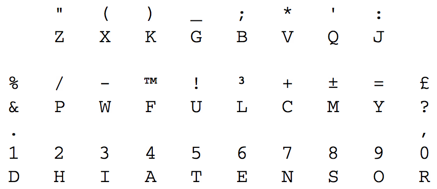 Blickensderfer typewriter layout, as used on travel typewriters invented by George C. Blickensderfer (1850-1917) in 1891 and manufactured by the Blickensderfer Typewriter Co., Stamford, Connecticut, USA. Note that this keyboard had three rows of keys instead of the more common four, and special symbols were accessed with a special shift key.